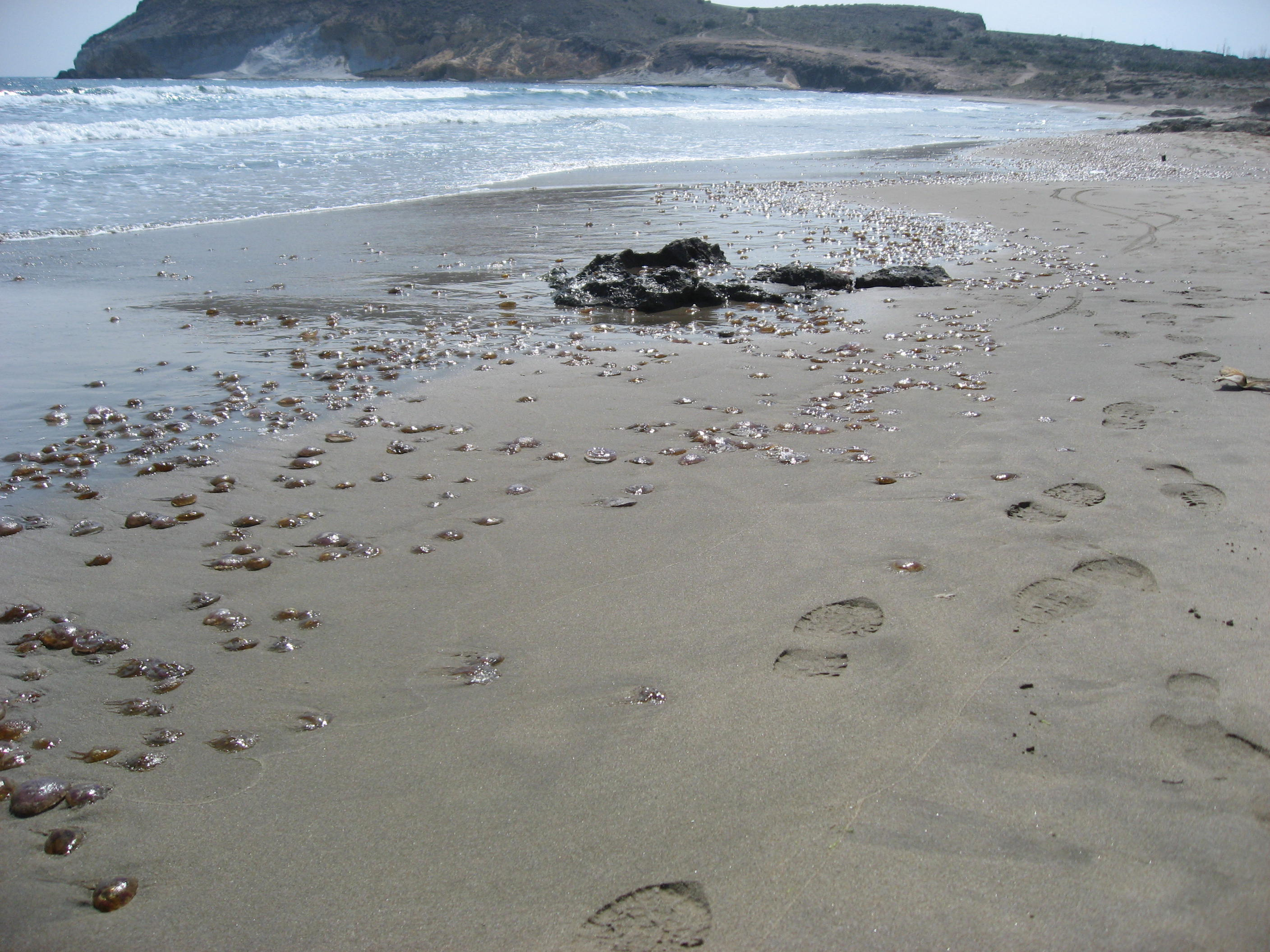 A jellyfish tide (Pelagia noctiluca), beaching for thousands in a beach (Cabo de gata) in Almería, south Spain.